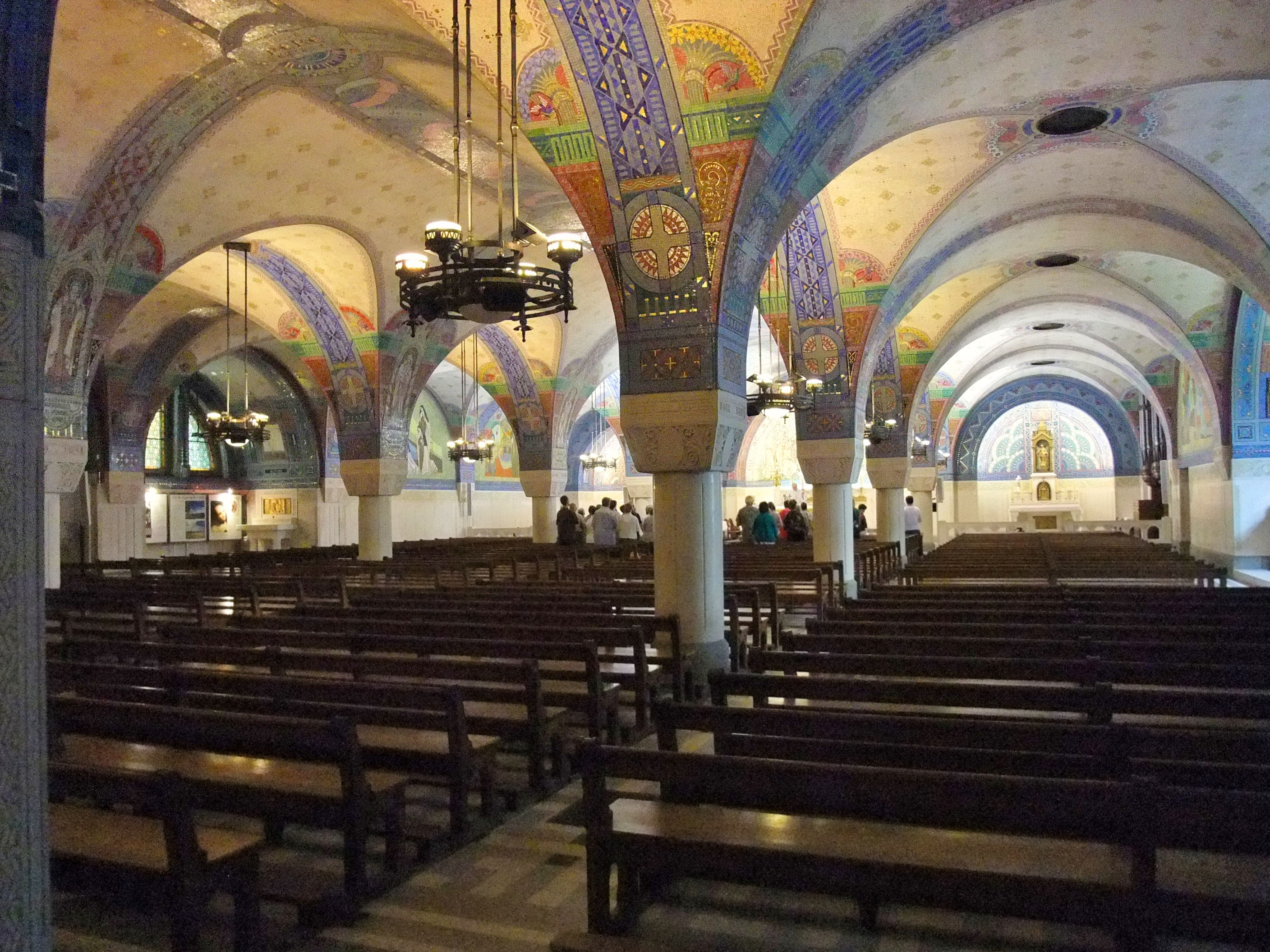 Interior of Basilica of Sainte-Thérèse in Lisieux, France